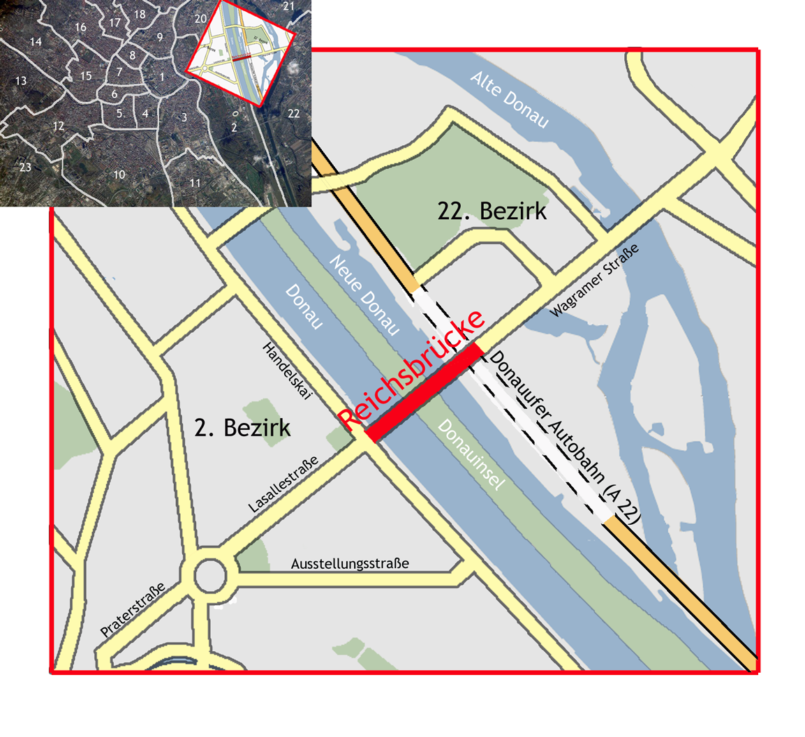 Location of the Reichsbrücke, a bridge in Vienna